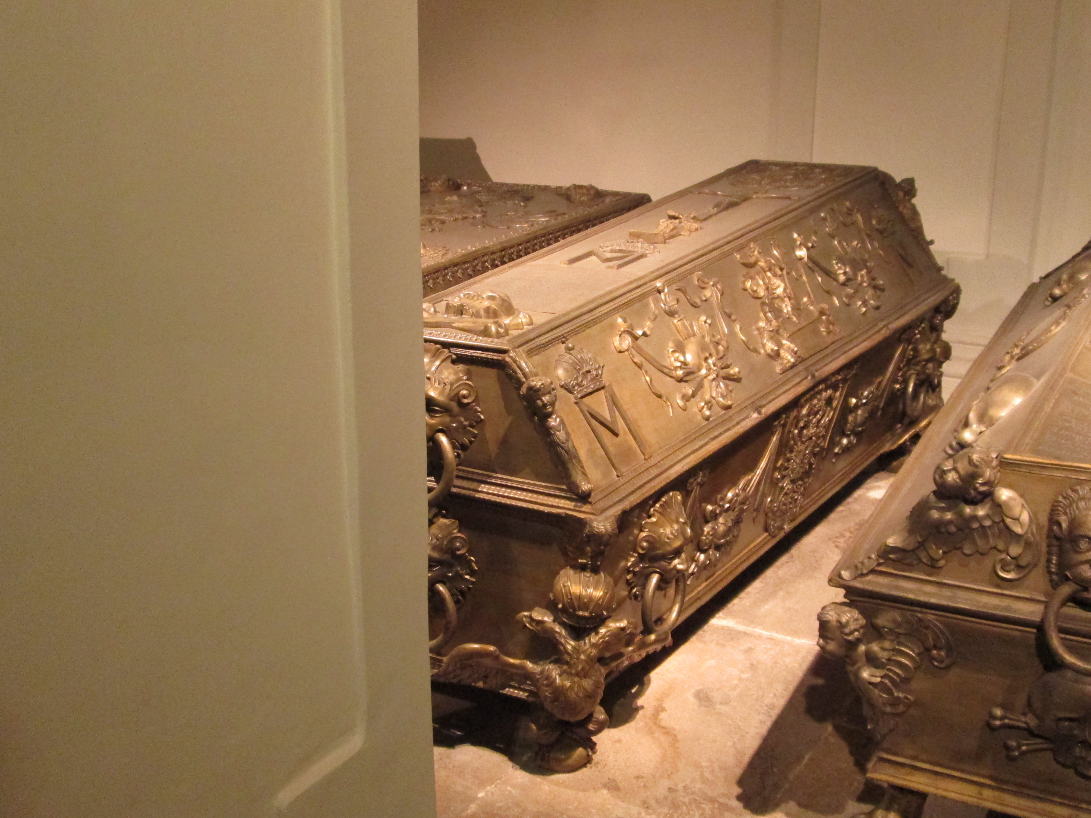 Tomb of Empress Margaret Theresa in the Imperial Crypt